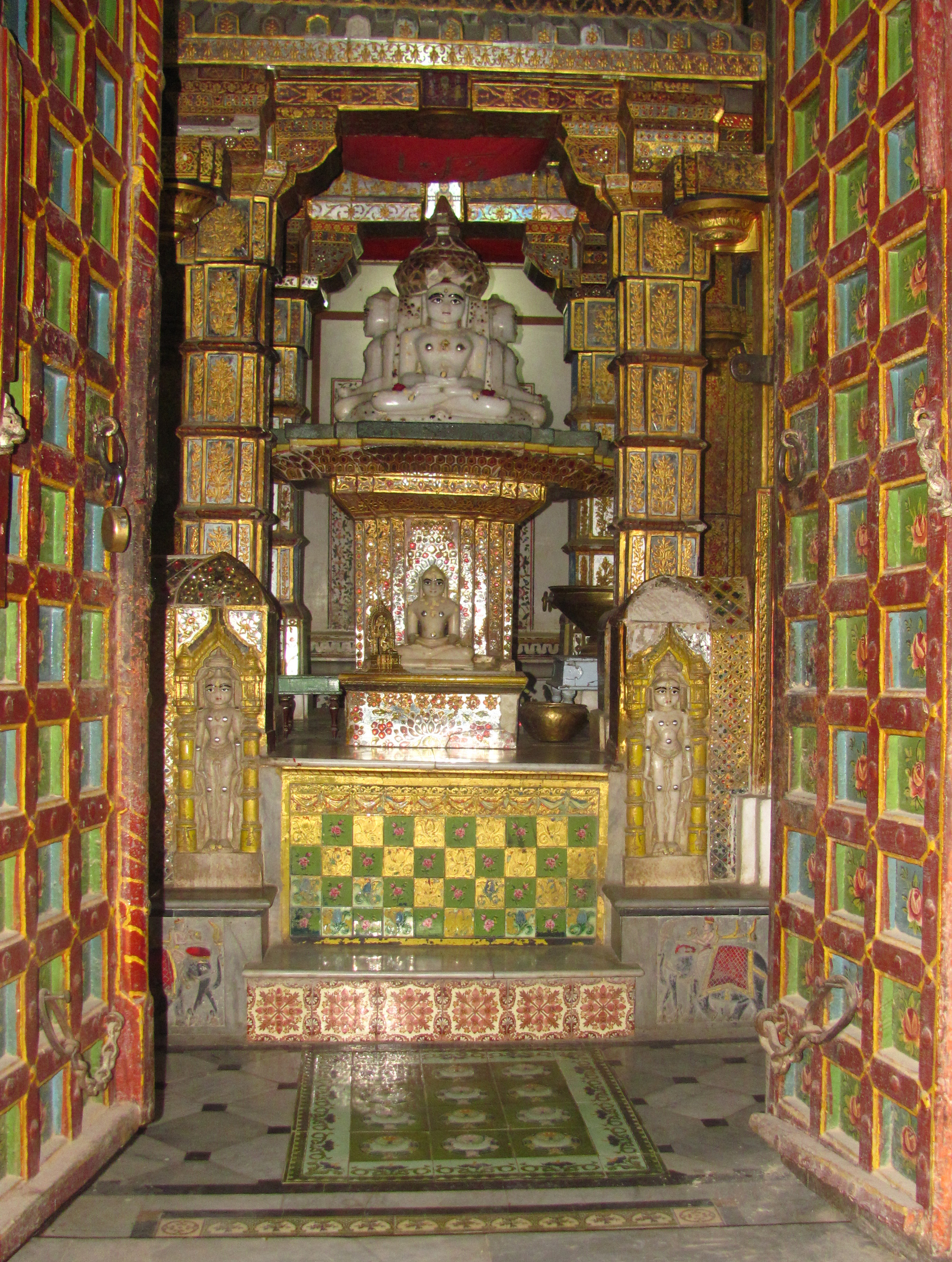 Garbhgriha of Bhandasar Jain Temple, Bikaner